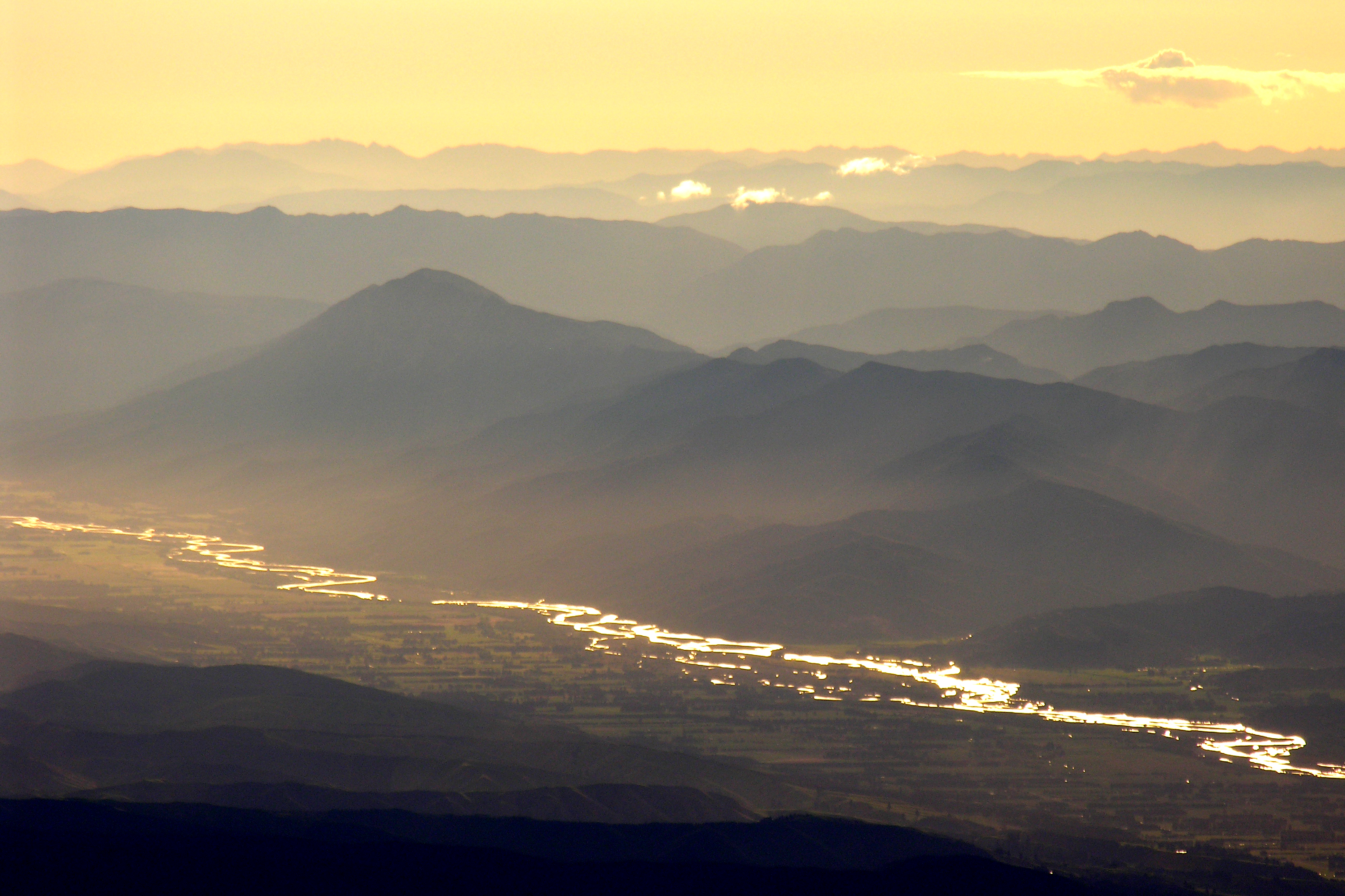 Wairau Valley, Marlborough, New Zealand. En route Christchurch to Wellington.